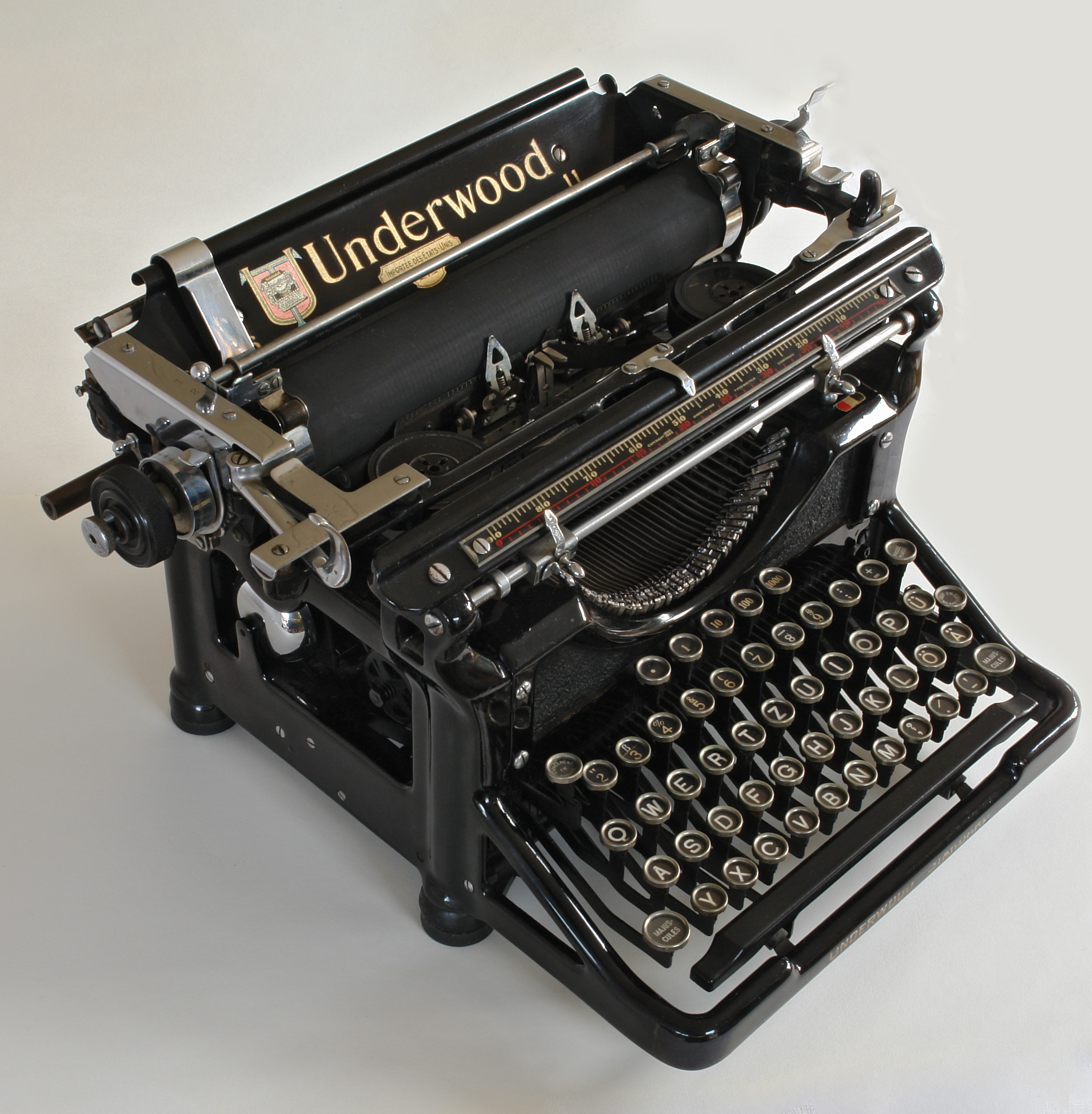 Underwood Typewriter